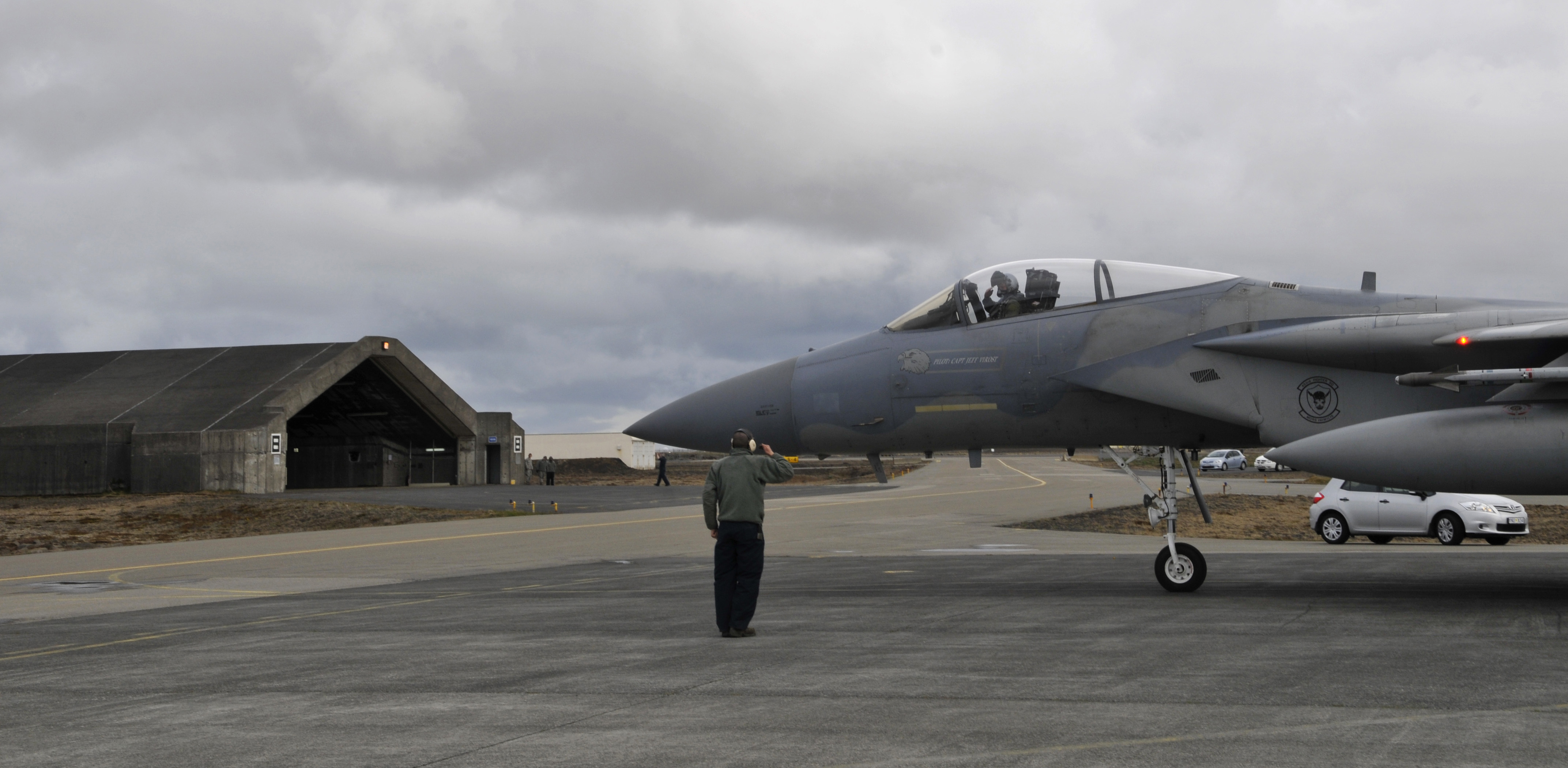 KEFLAVIK, Iceland -- Col. William Lewis, 48th Fighter Wing vice commander, is saluted by Airman 1st Class Joshua Tarango, 493rd Expeditionary Fighter Squadron crew chief, during an alert exercise with the 493rd EFS at Keflavik International Airport May 22, 2012. The squadron, made up of both U.S. Air Force and NATO personnel, is fulfilling an air policing mission that assists in assuring Iceland’s air sovereignty. While there, the squadron is on alert 24/7 and the F-15C can be airborne within 15 minutes.